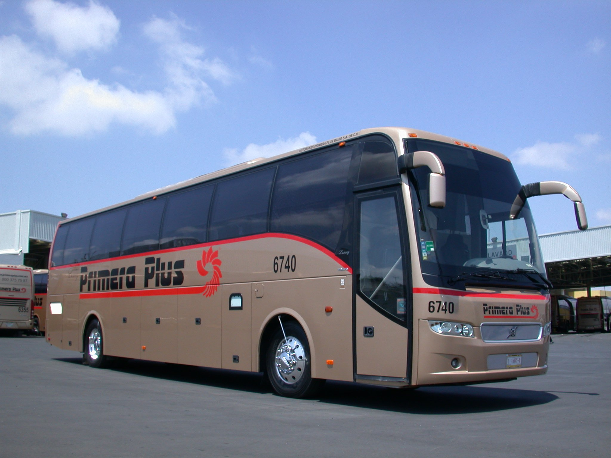 Modelo 9700